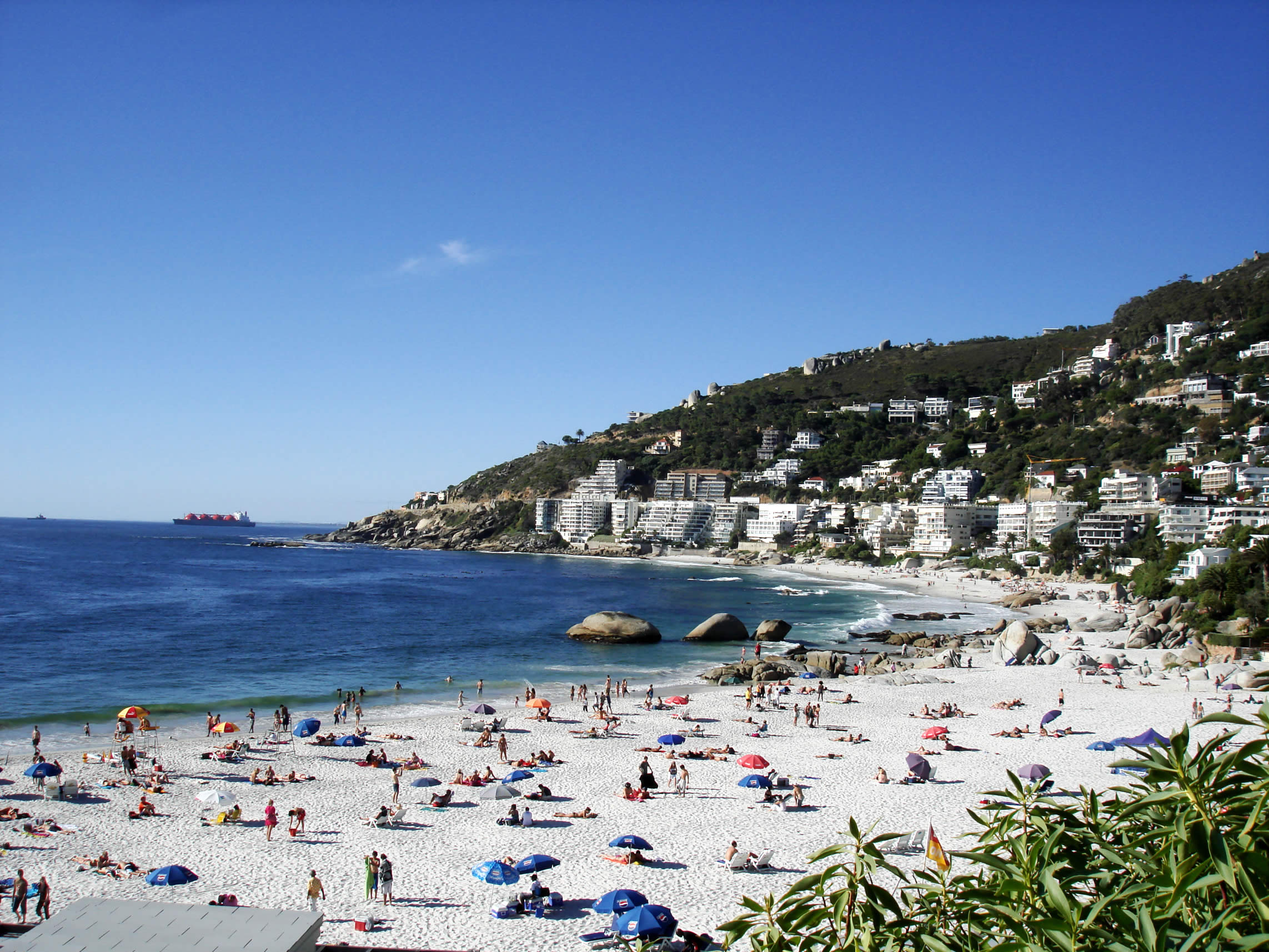 Clifton 4th Beach